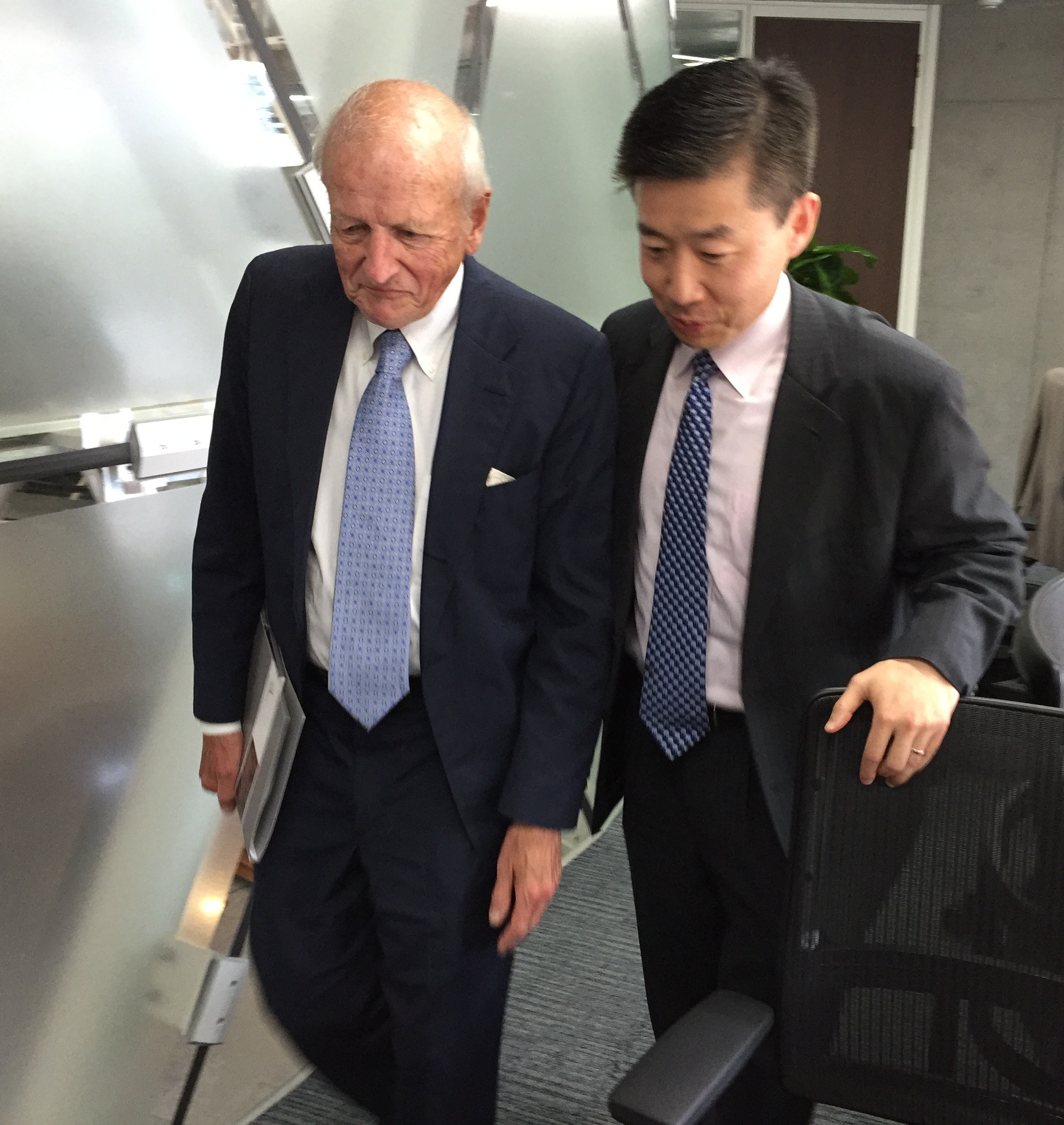 Professors John Curtis Perry and Sung-Yoon Lee from the Fletcher School of Law and Diplomacy, visiting as part of an academic delegation the ASAN Institute for Policy Studies in Seoul, Korea, on June 2, 2015